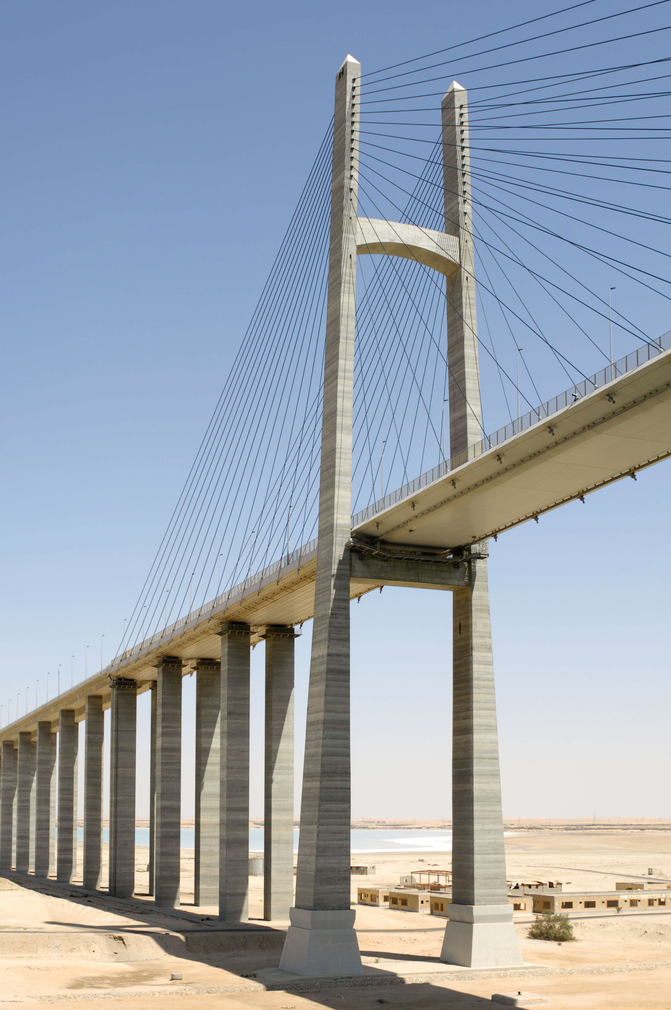 The Suez Canal Bridge crosses the Canal at El Qantara. It is also known as the Shohada 25 January Bridge or the Egyptian-Japanese Friendship Bridge.